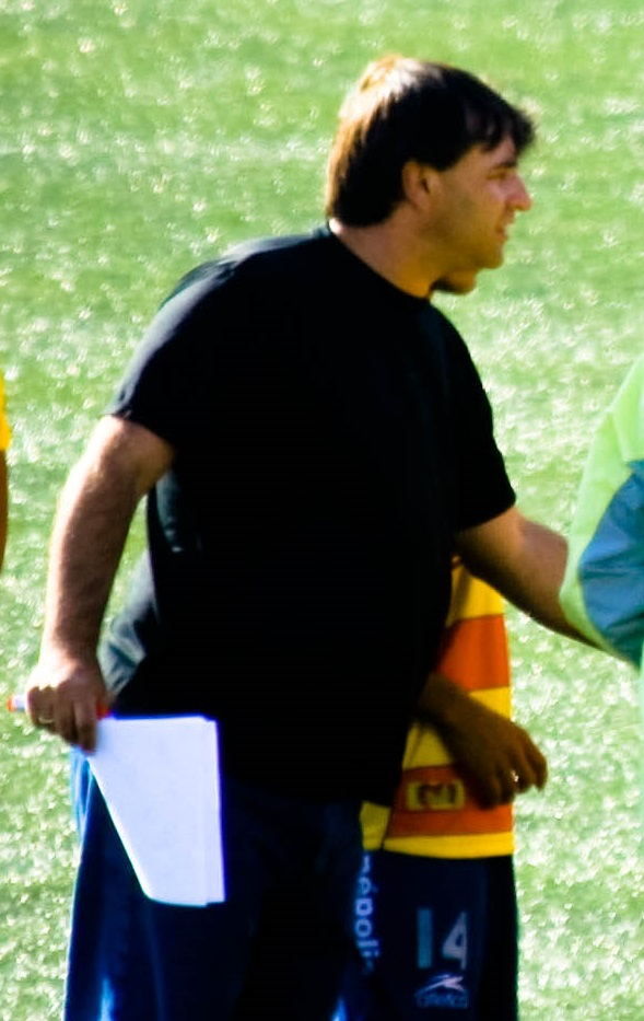 Argentine coach Carlos Bustos